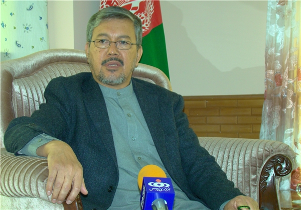 Sadiq Mudaber